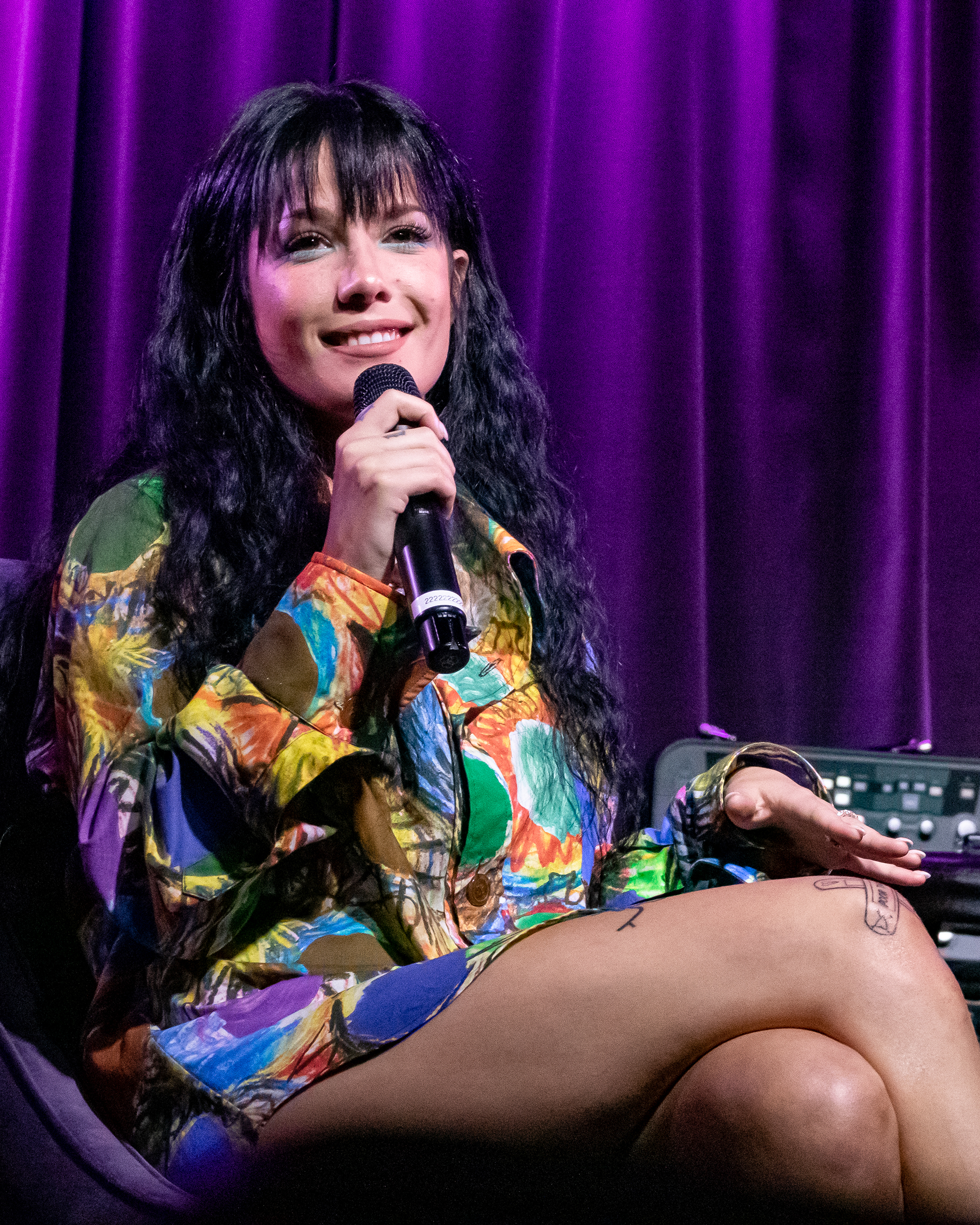 Halsey performing live at the Grammy Museum in Los Angeles on 09/23/2019.